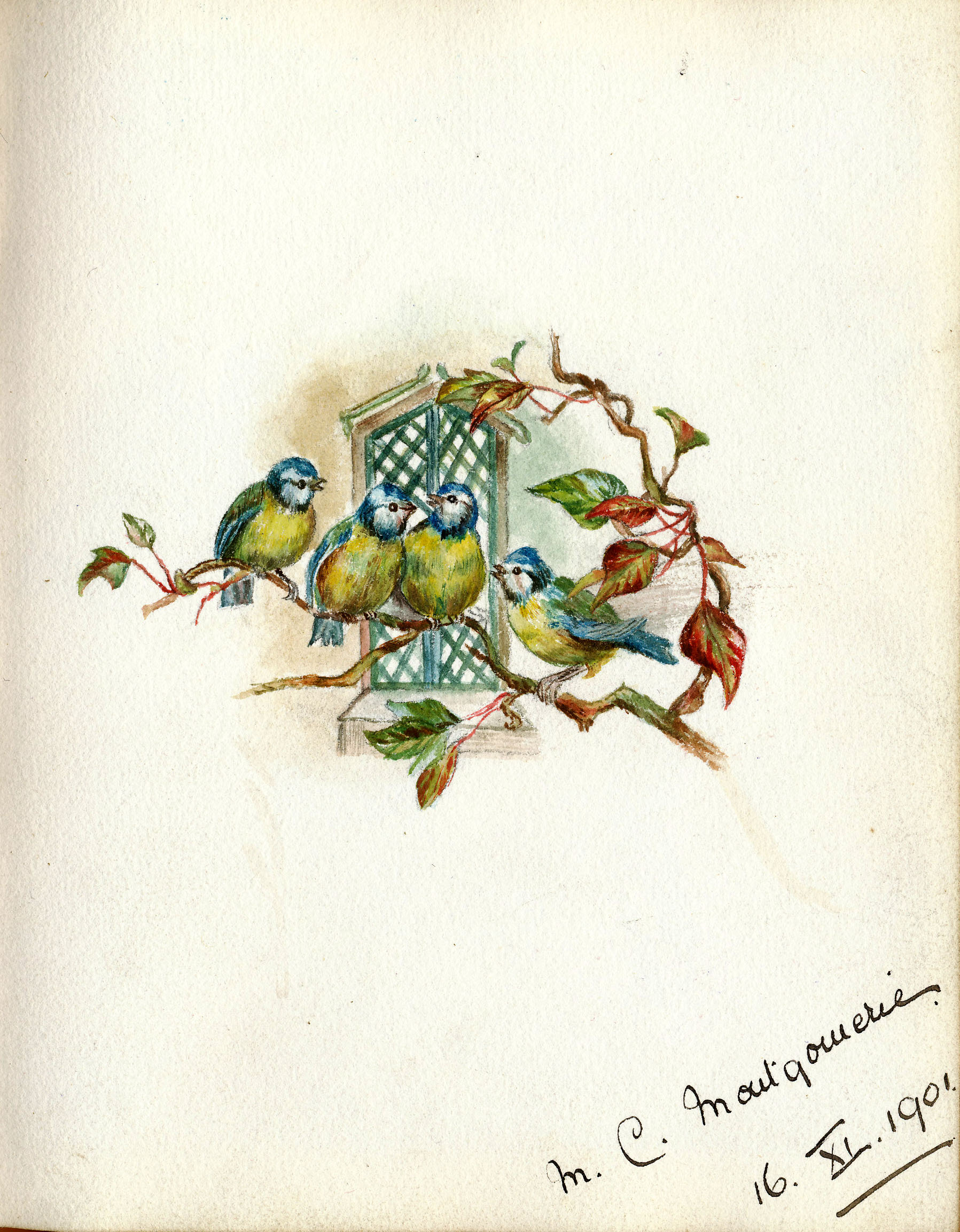 A painting of Bluetits from the Bonshaw House Visitor's Book, Stewarton, Ayrshire, Scotland